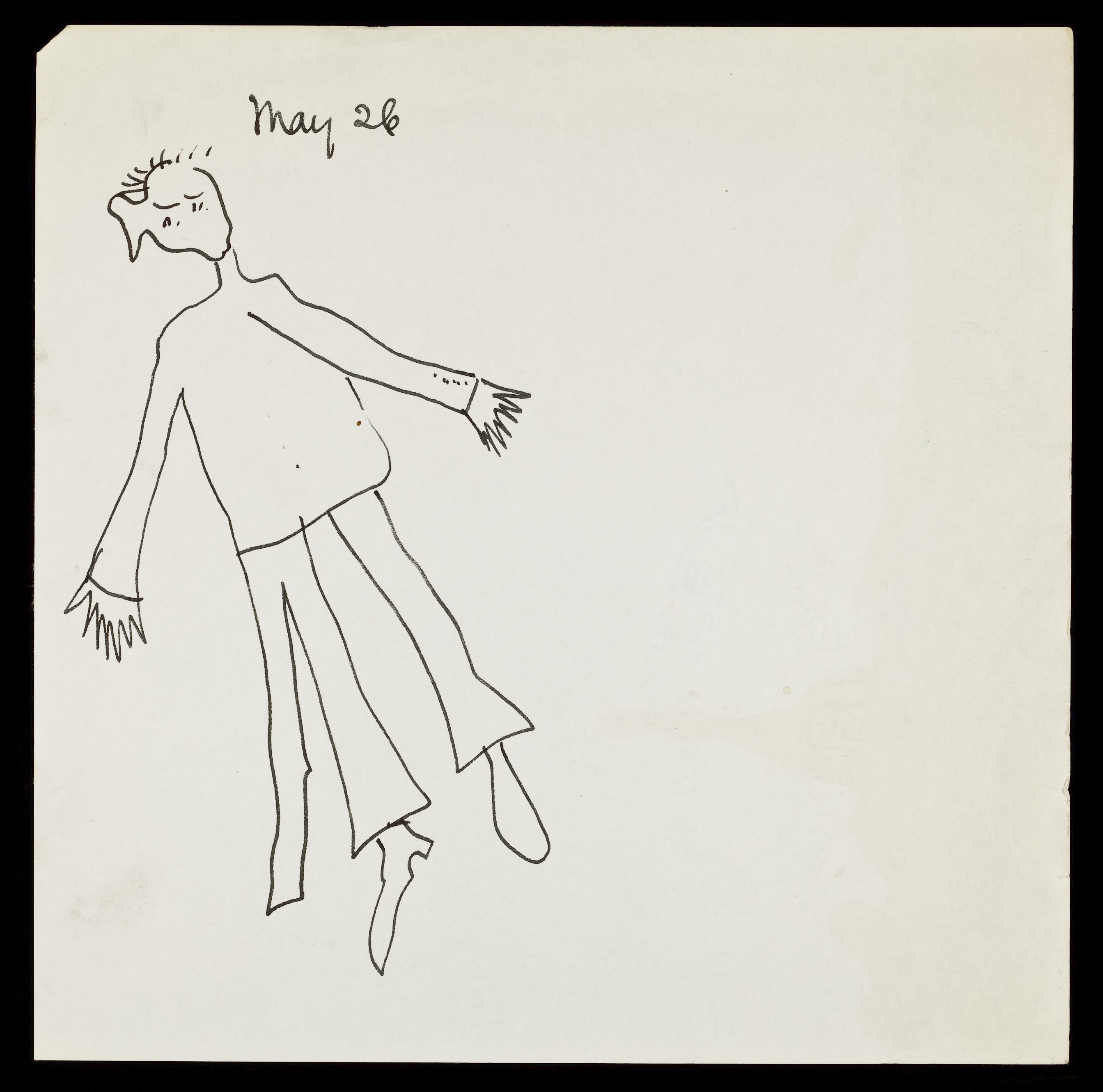 Immunologist, Peter Medawar was first struck down by a stroke in 1969 when delivering a speech in Exeter cathedral – he suffered numerous other strokes thereafter yet persevered through ever disabling health issues to continue to write 7 books. This drawing was produced while in a respite home in 1970. Digitised for CODEBREAKERS, MAKERS OF MODERN GENETICS Archives & Manuscripts